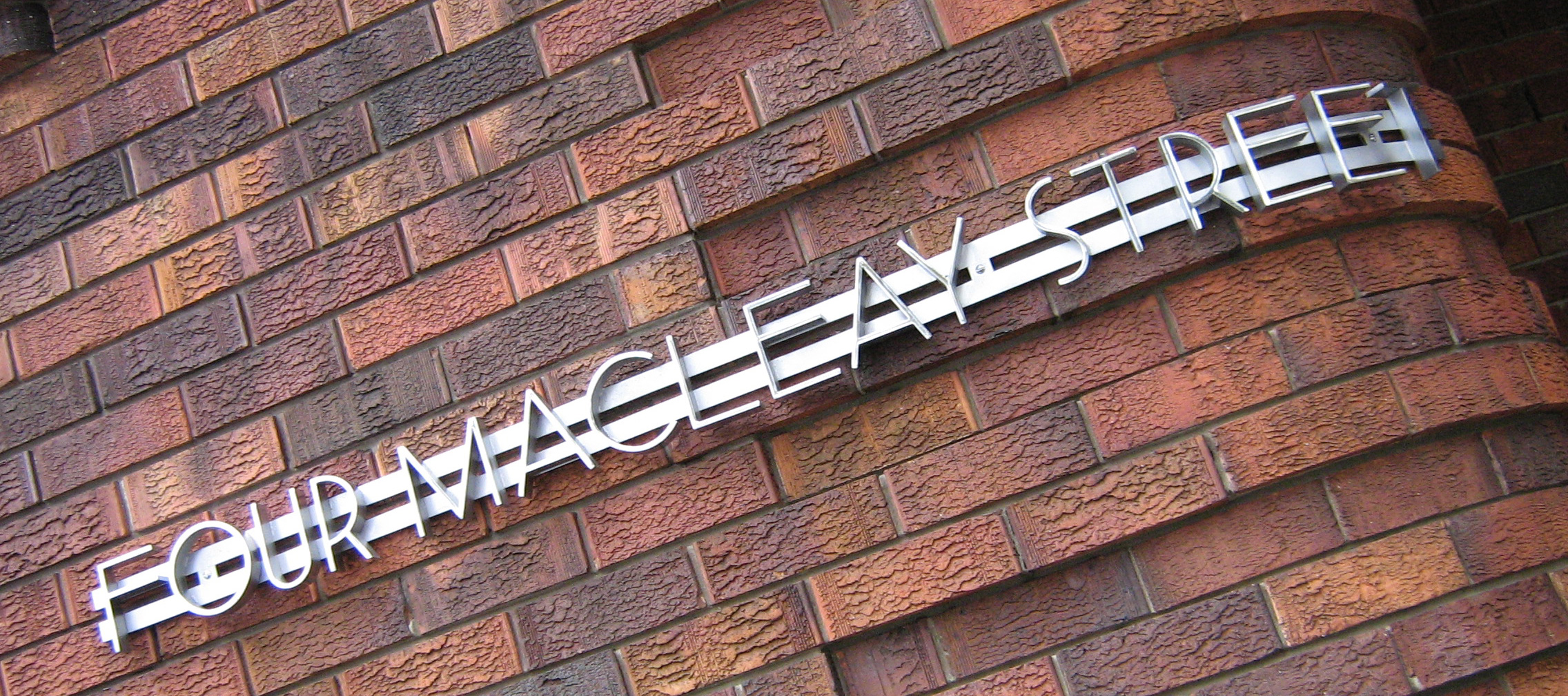 Great Art Deco type face